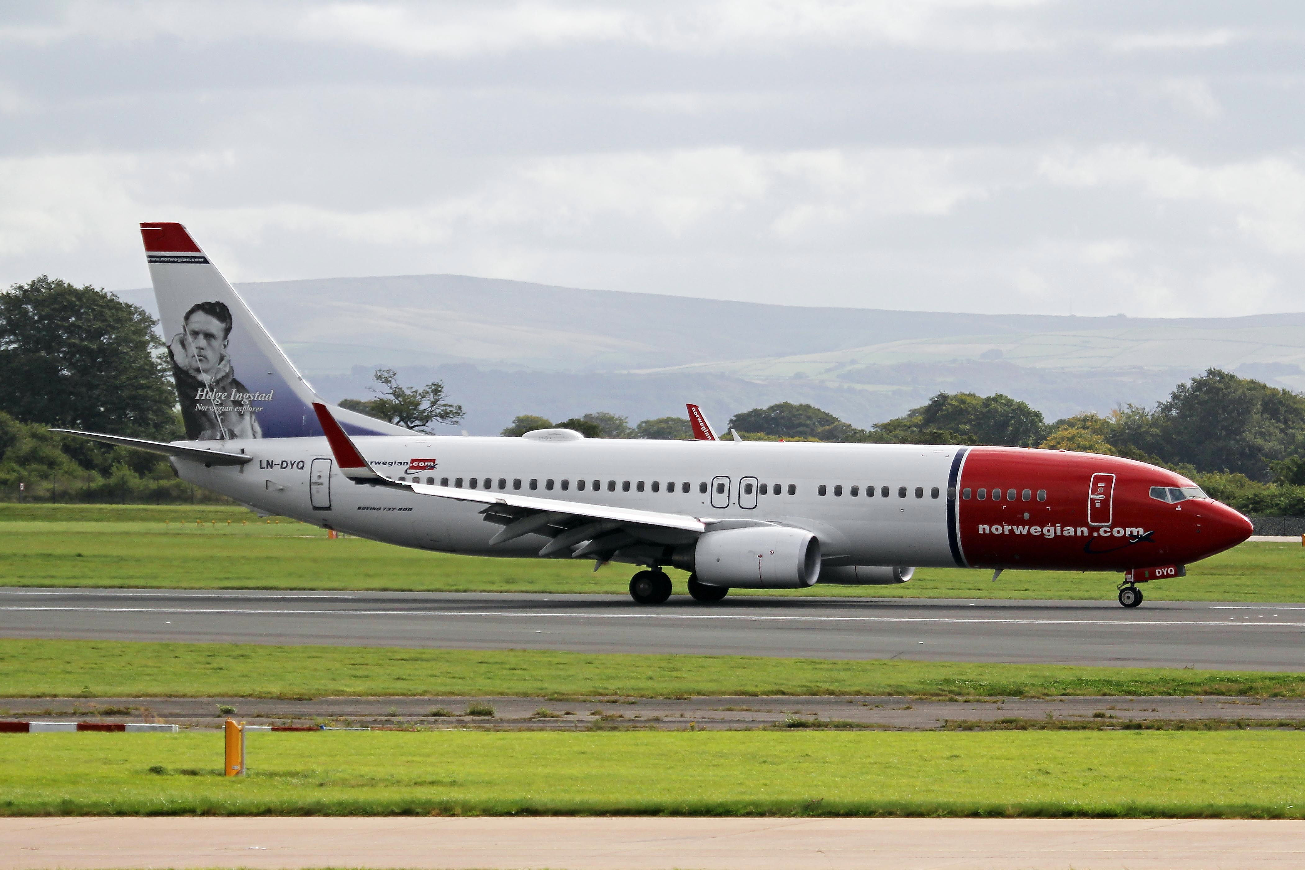 Helge Ingstad, Norwegian Explorer- tail c/scheme